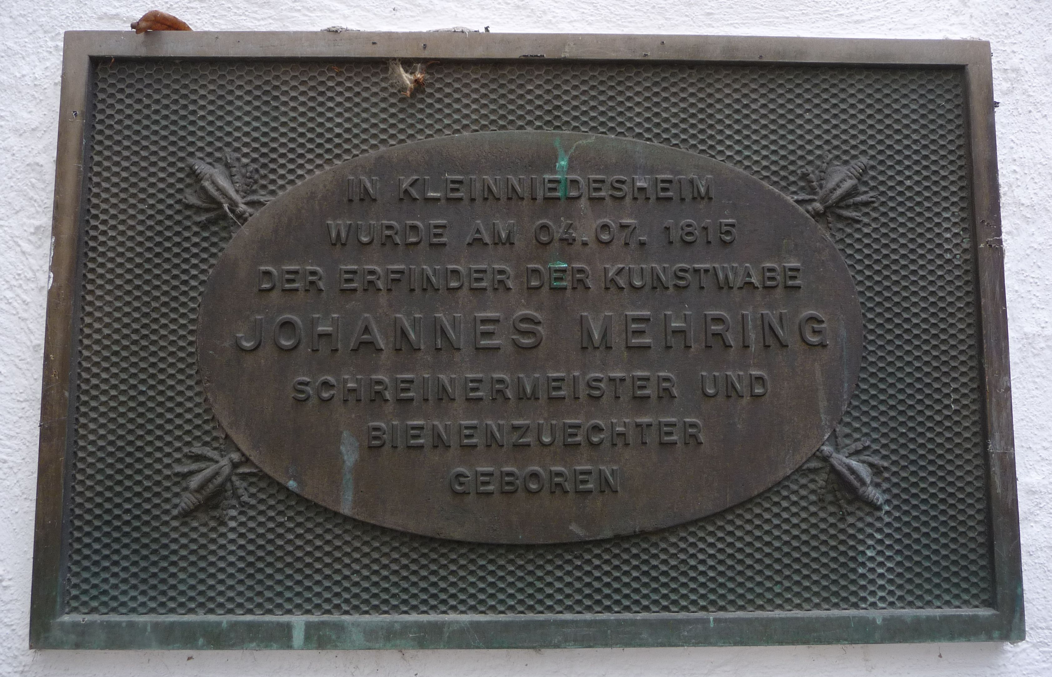 Kleinniedesheimer Schloss (Castle in Kleinniedesheim, Germany)